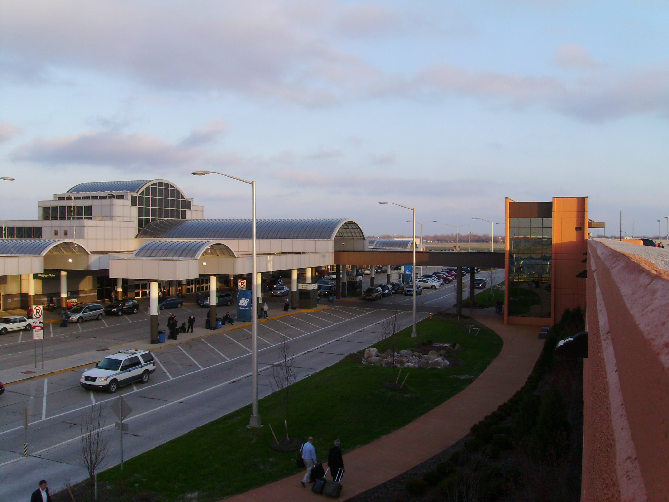 Dayton International Airport terminal building atop the parking garage.